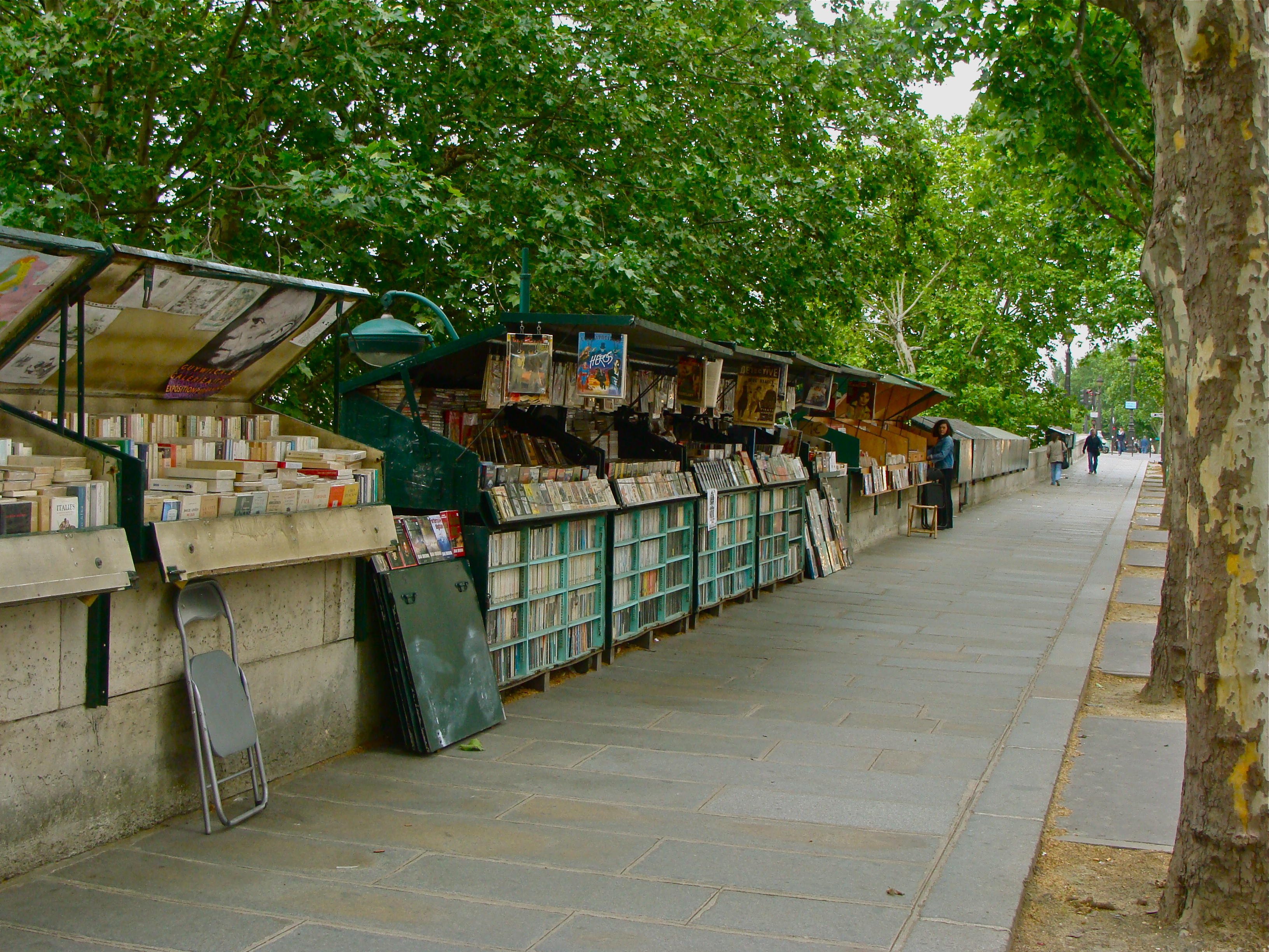 Bouquinistes on the river of the Seine in Paris